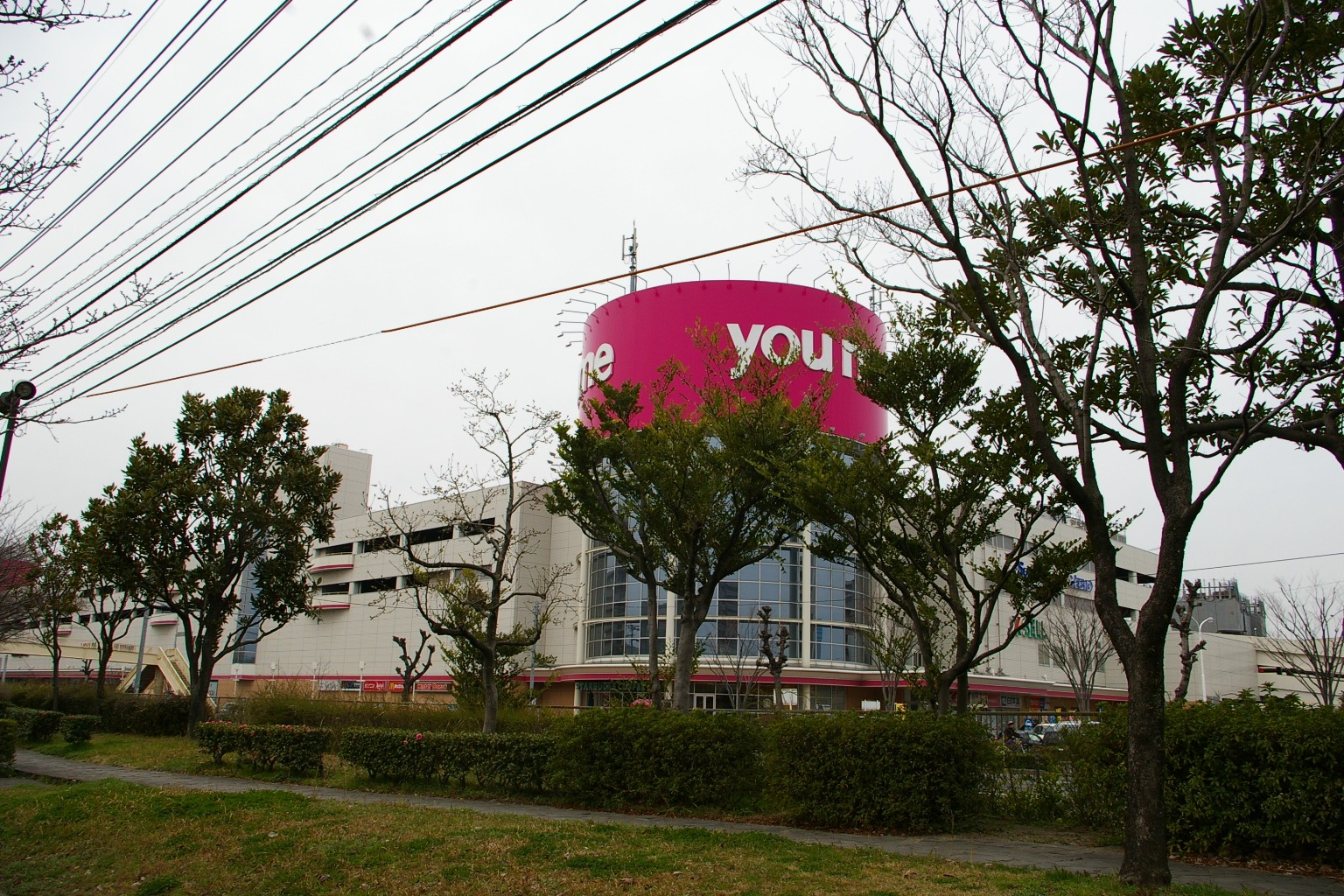 Higashi ward